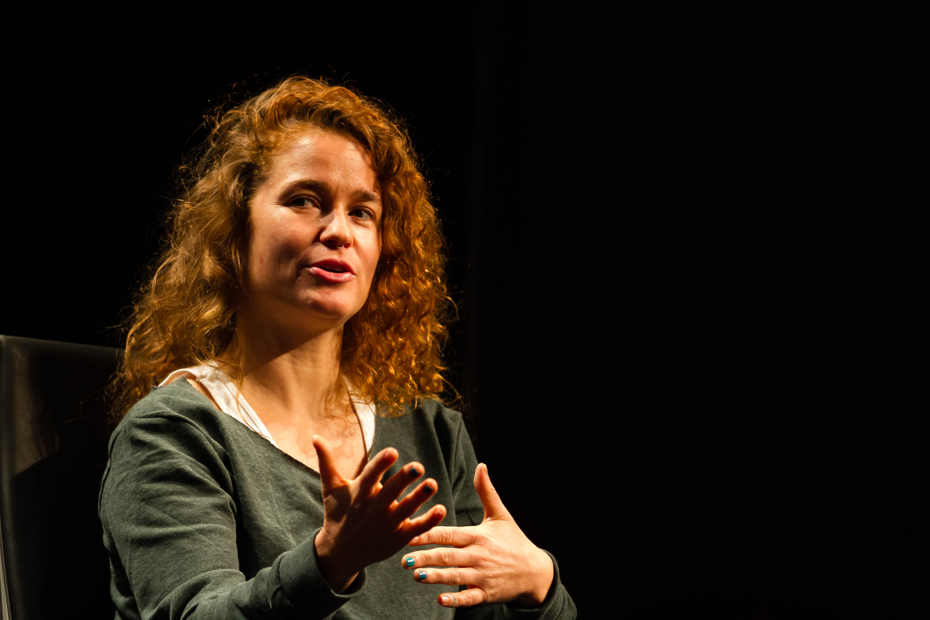 Swoon, Caledonia Dance Curry, PopTech, 2014